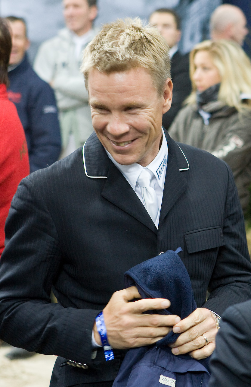 Mikael Forstén 2009 in Helsinki